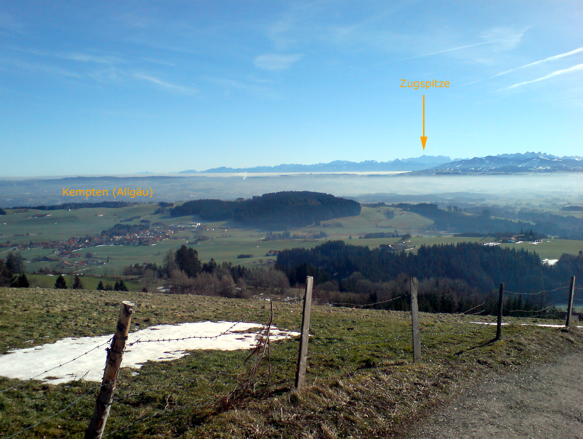 clear views: from the Blender (mountain) to the Zugspitze. In the morning fog lies Kempten im Allgäu. The linear distance between the Blender and the Zugspitze is about 41 miles.